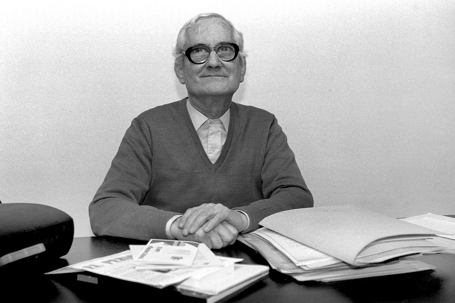 Jaume Camp i Lloreda